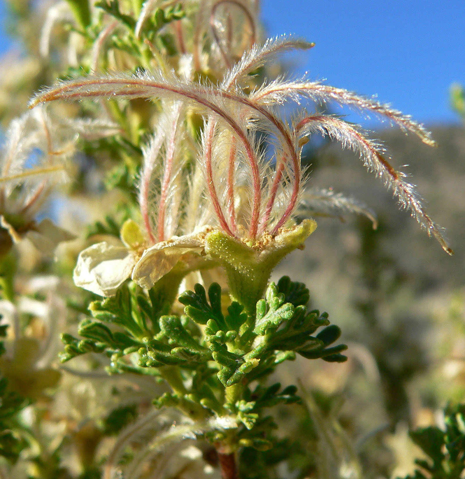 Purshia stansburiana in Lovell Canyon, Spring Mountains, southern Nevada